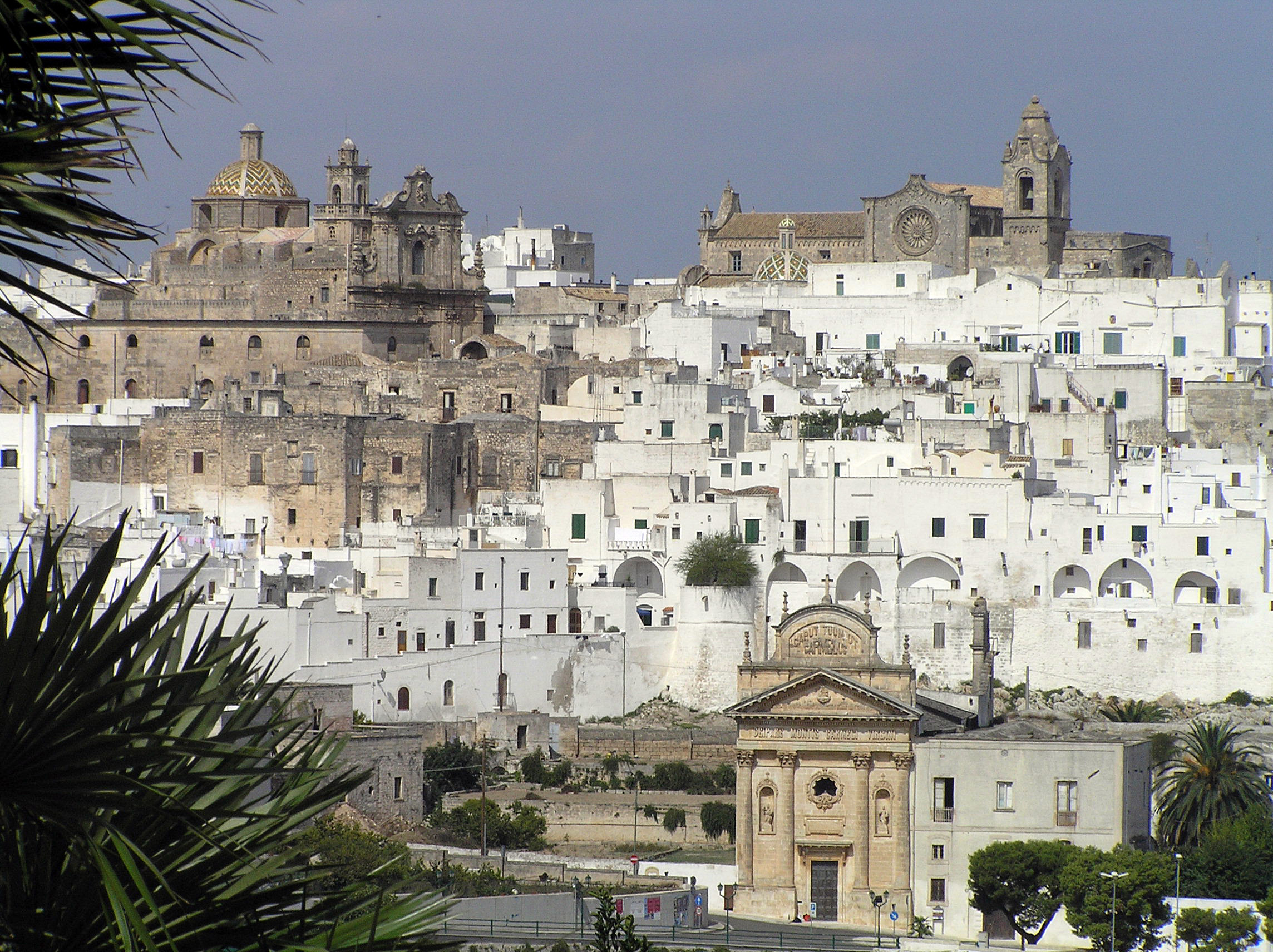 City of Ostuni, general view